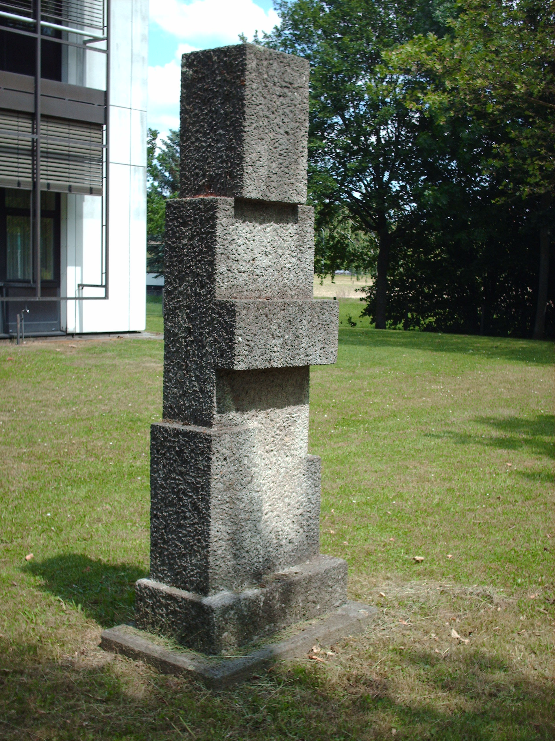 Figur by Hans Steinbrenner, part of Gießener Kunstweg, Gießen, Germany check usage